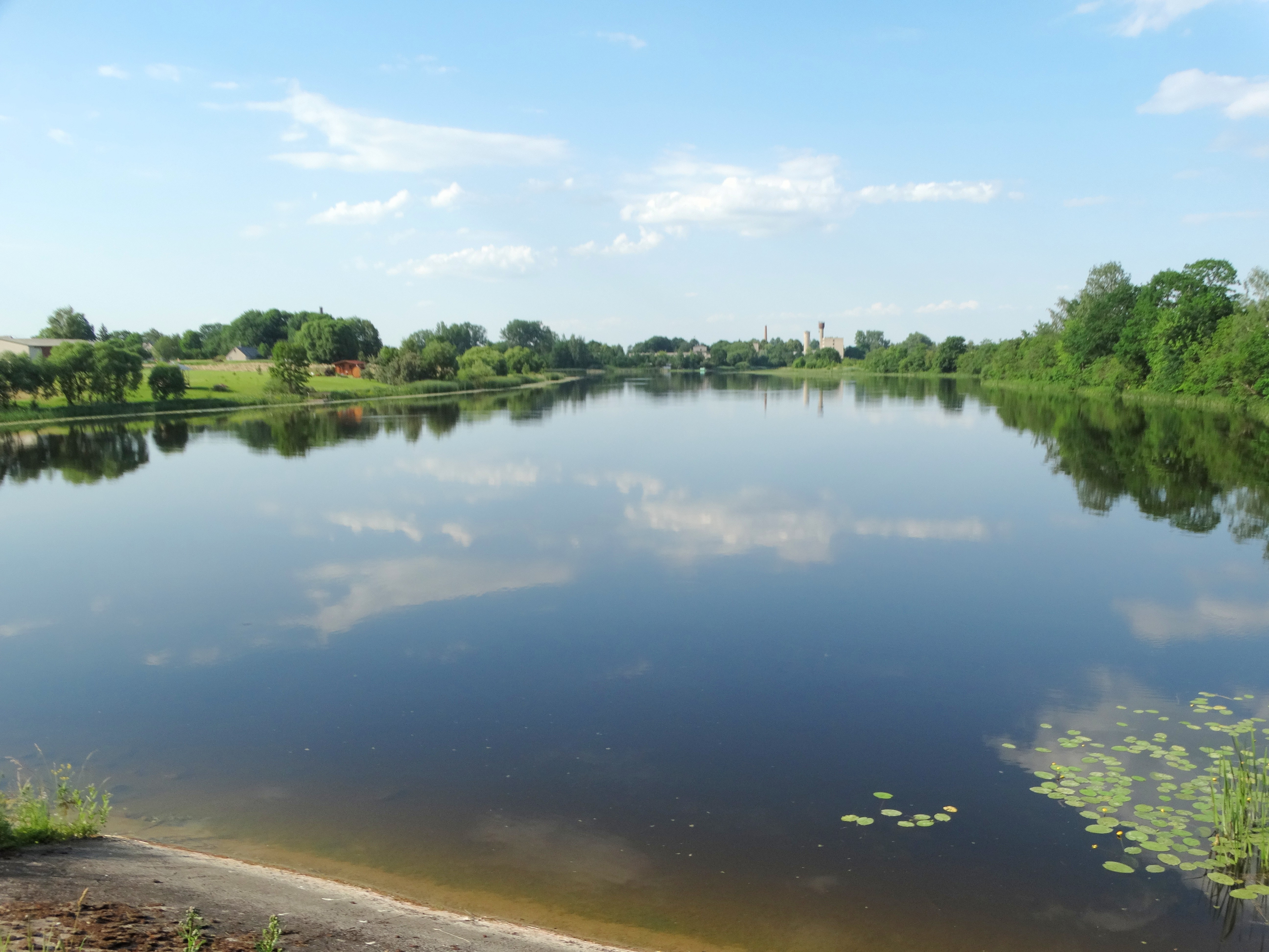 Pond, Aukštieji Kapliai, Kėdainiai district, Lithuania